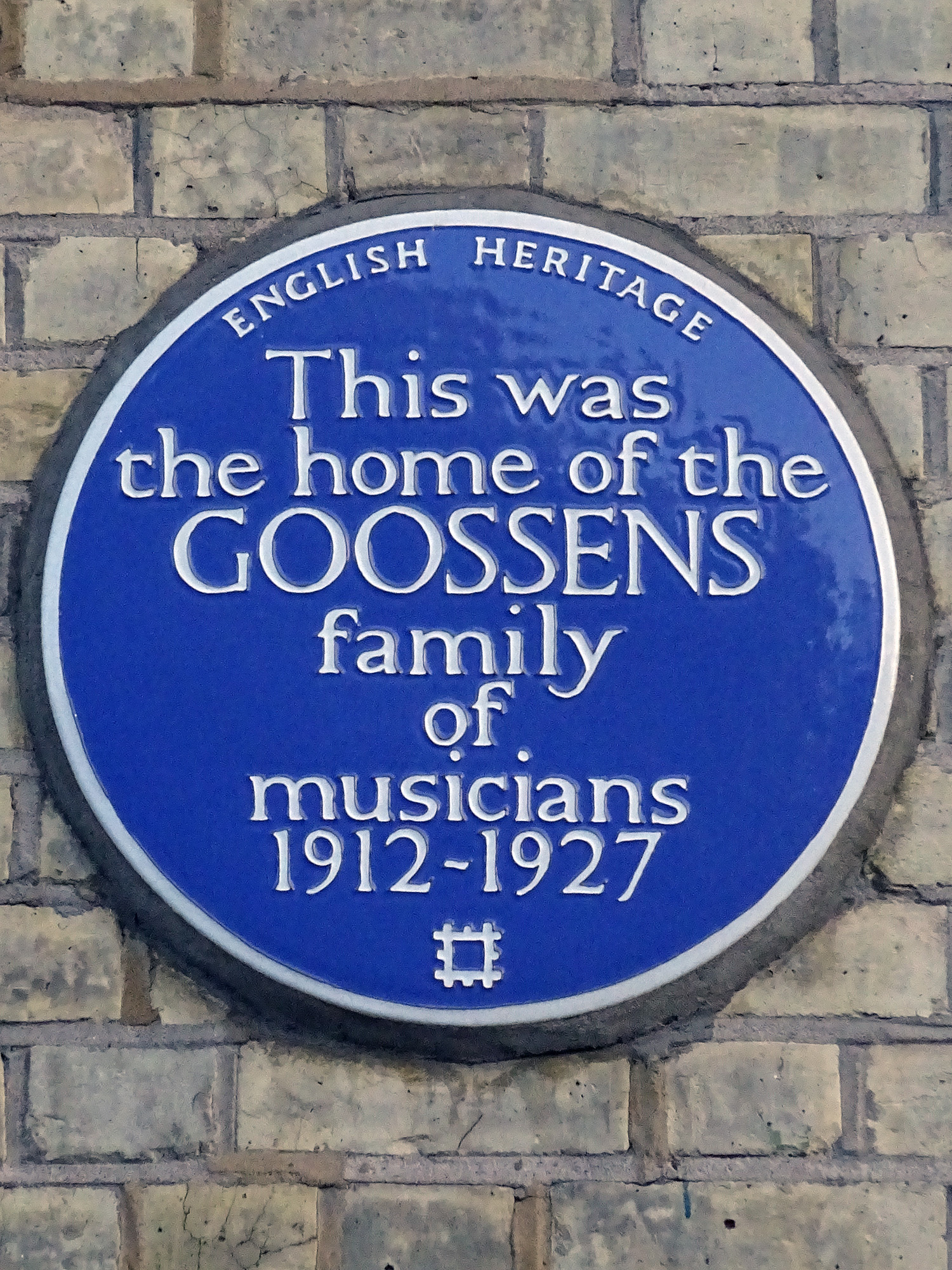 Blue plaque erected in 1999 by English Heritage at 70 Edith Road, West Kensington, London W14 9AR, London Borough of Hammersmith and Fulham